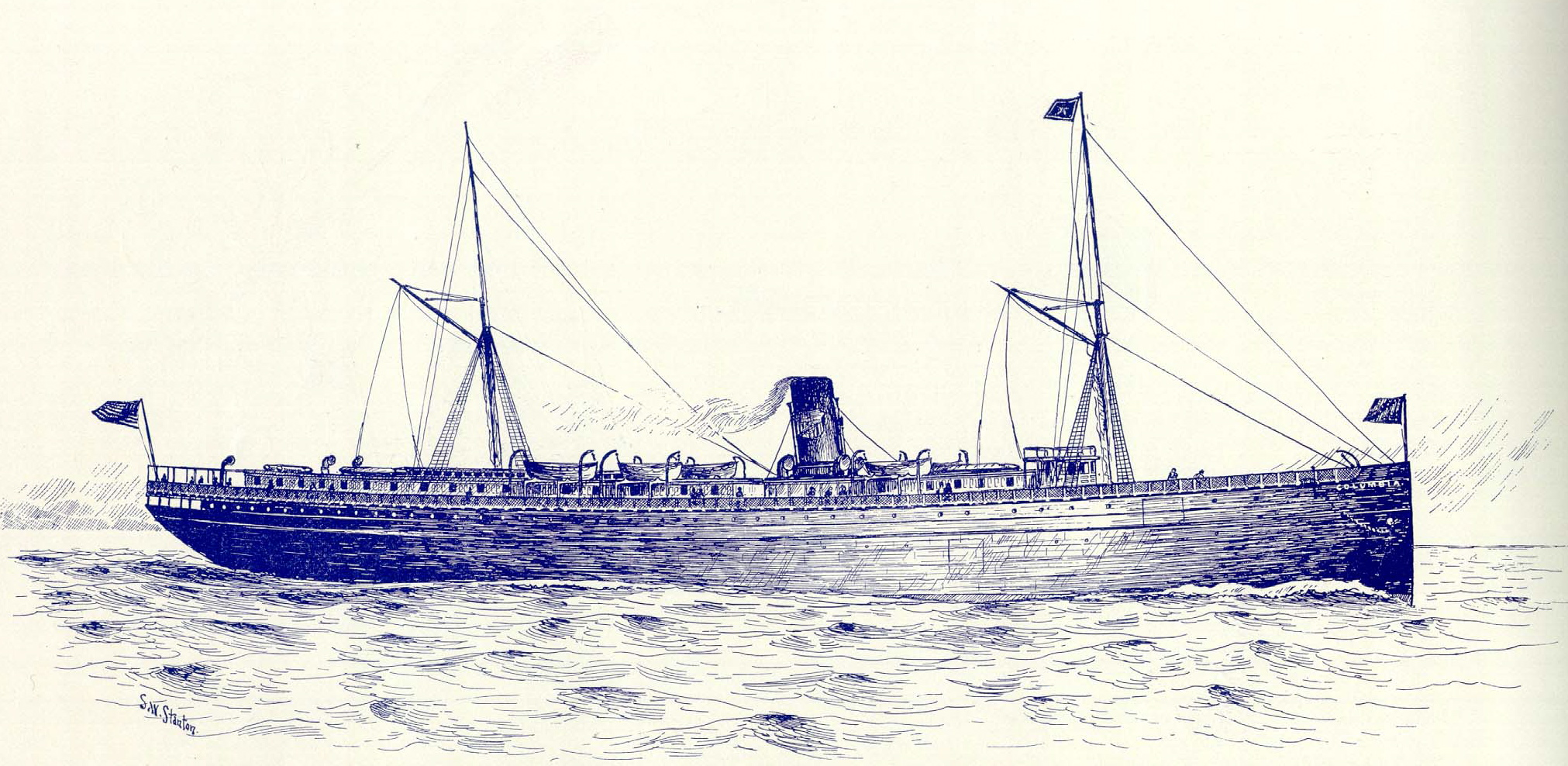 Columbia, steamship built 1880, ran on the west coast of the United States.